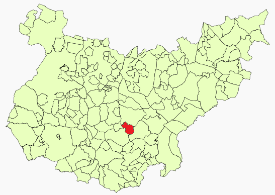 Llera